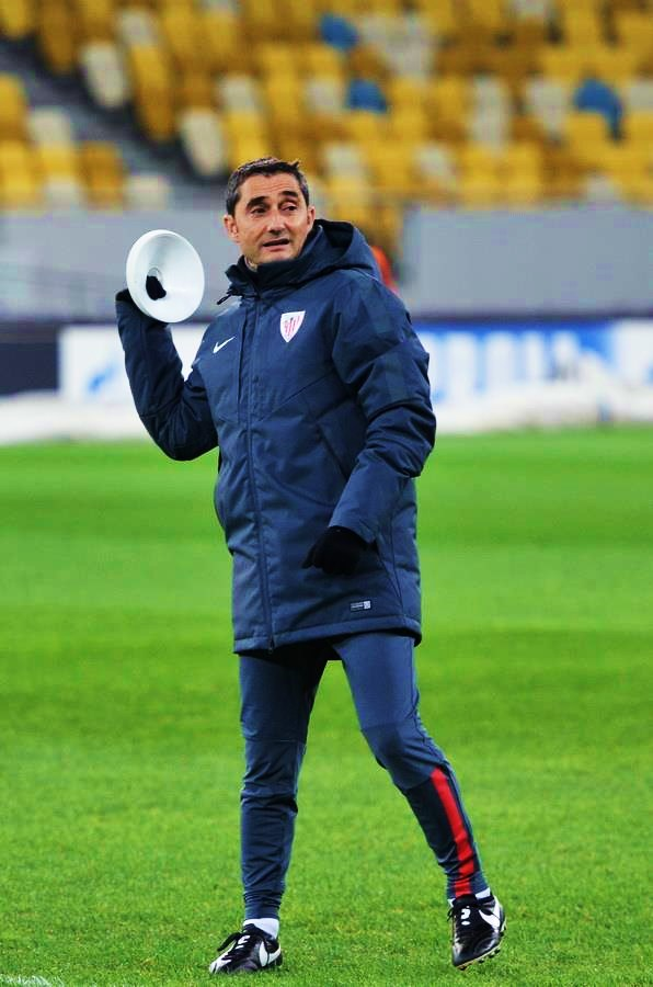 Ernesto Valverde